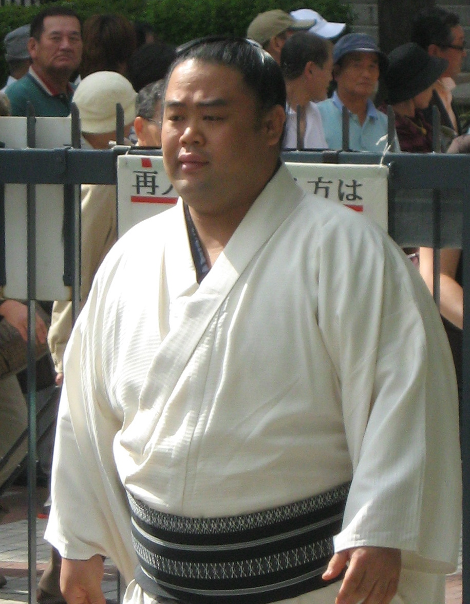 Taken at Sep 2008 tournament